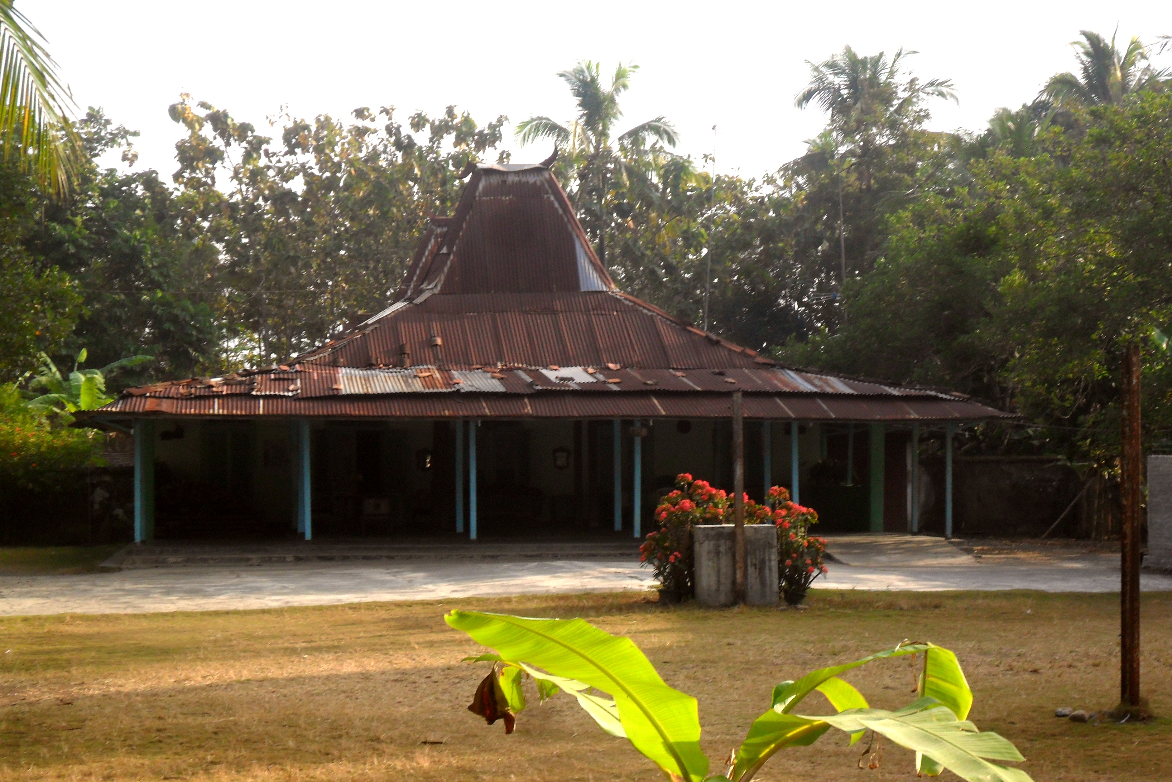 Head of village house in Gebangsari, Banyumas, Central Java.